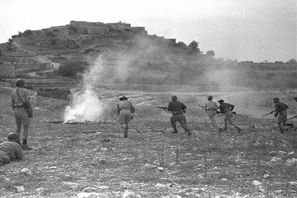 Palmach forces of the Northern Command Force open an attack on Kaukji's Arab irregulars at Sasa in upper Galilee.